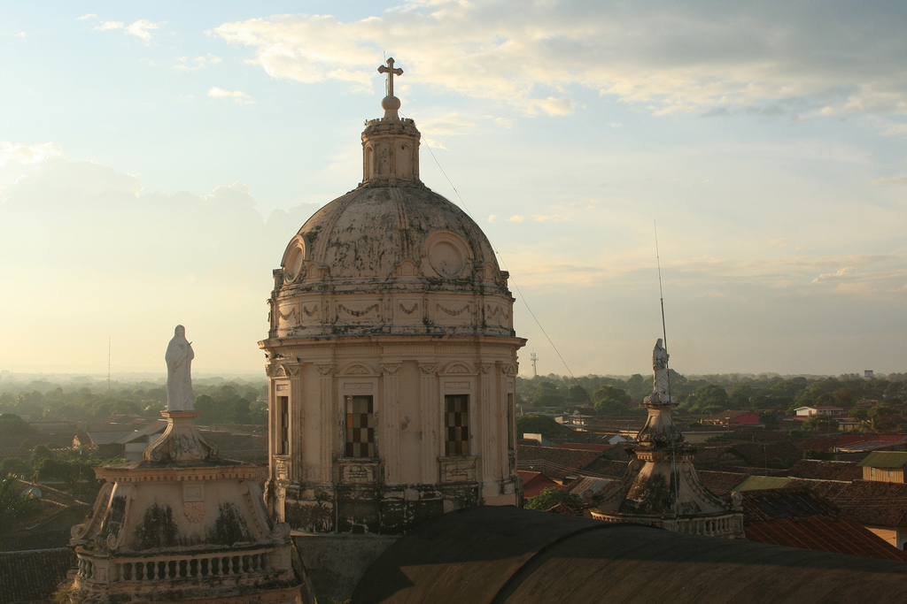 La Merced Church Dome -Granada, Nicaragua